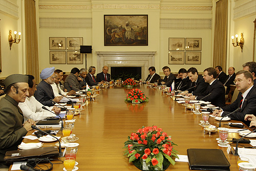 NEW DELHI. Russian-Indian talks.